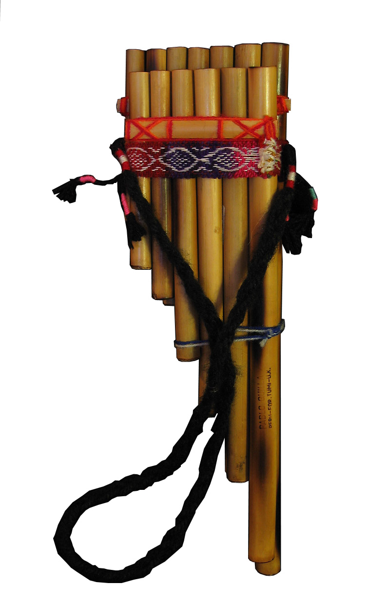 Pan pipes from South America. These pan pipes are probably not the best quality, but do play adequately. The pipes are made from bamboo and are tuned to a major scale, covering approximately 1.5 octaves. Keywords: Pan pipes, musical instrument, bamboo. :: (Note: although filename might be possibly inappropriate, source of derived image should be described. Also you can rename files using rename|Zampoña.jpg|3 , where "3" means "Correct misleading names into accurate ones". See Commons:Rename for details.)